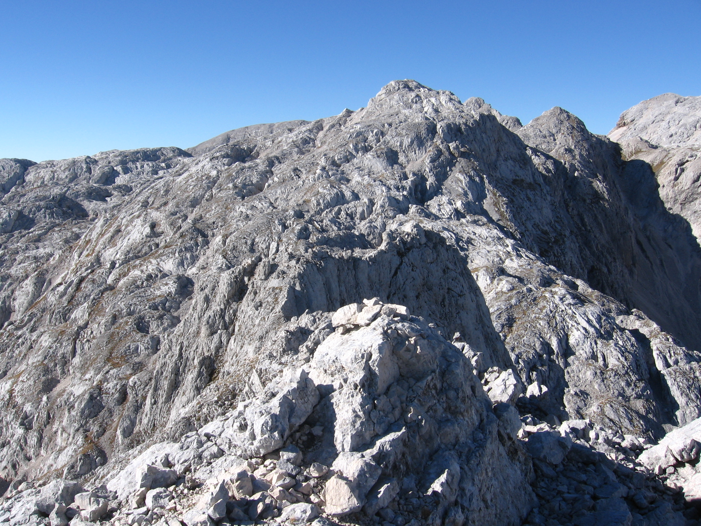 Mount Vrh Hribaric from Škednjovec, Triglav National Park, Slovenia.